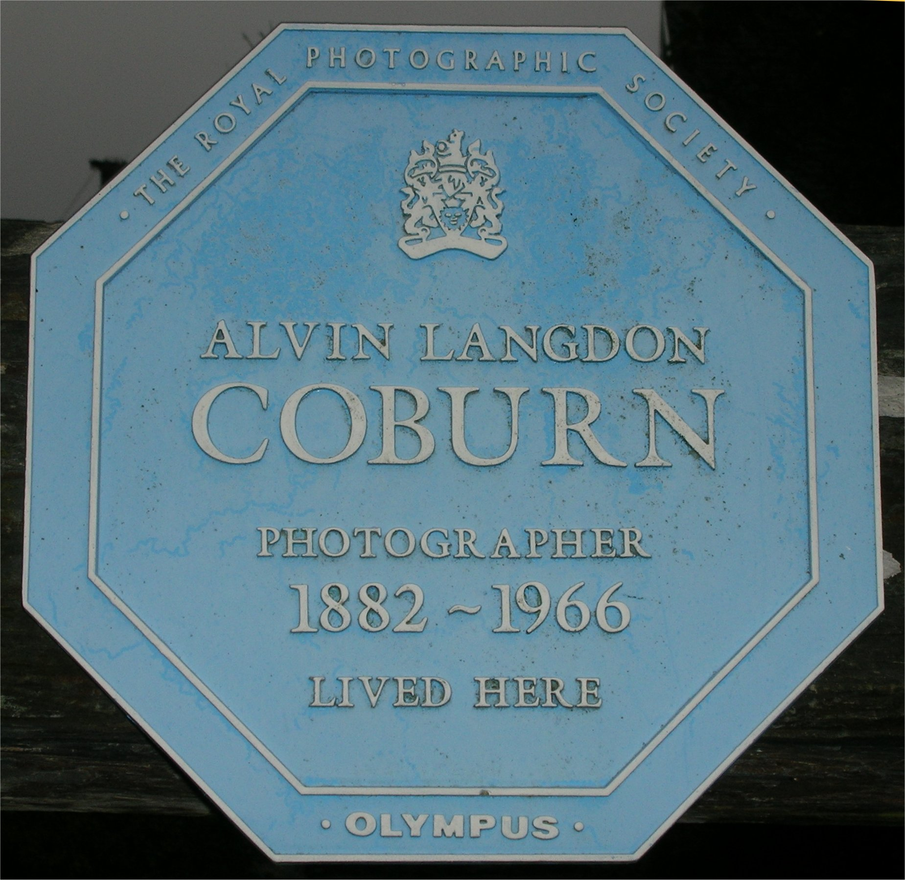 Blue plaque to Alvin Langdon Coburn, American photographer who settled in Britain and became a British Citizen, on his home (1918-45) in Harlech, North Wales. Photographed by me 25 October 2006. Oosoom